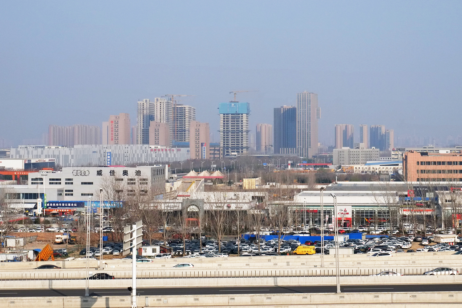 Putian Township in Zhengzhou